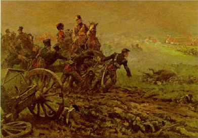 Krahmer de Bichin (nl) at the battle of Waterloo